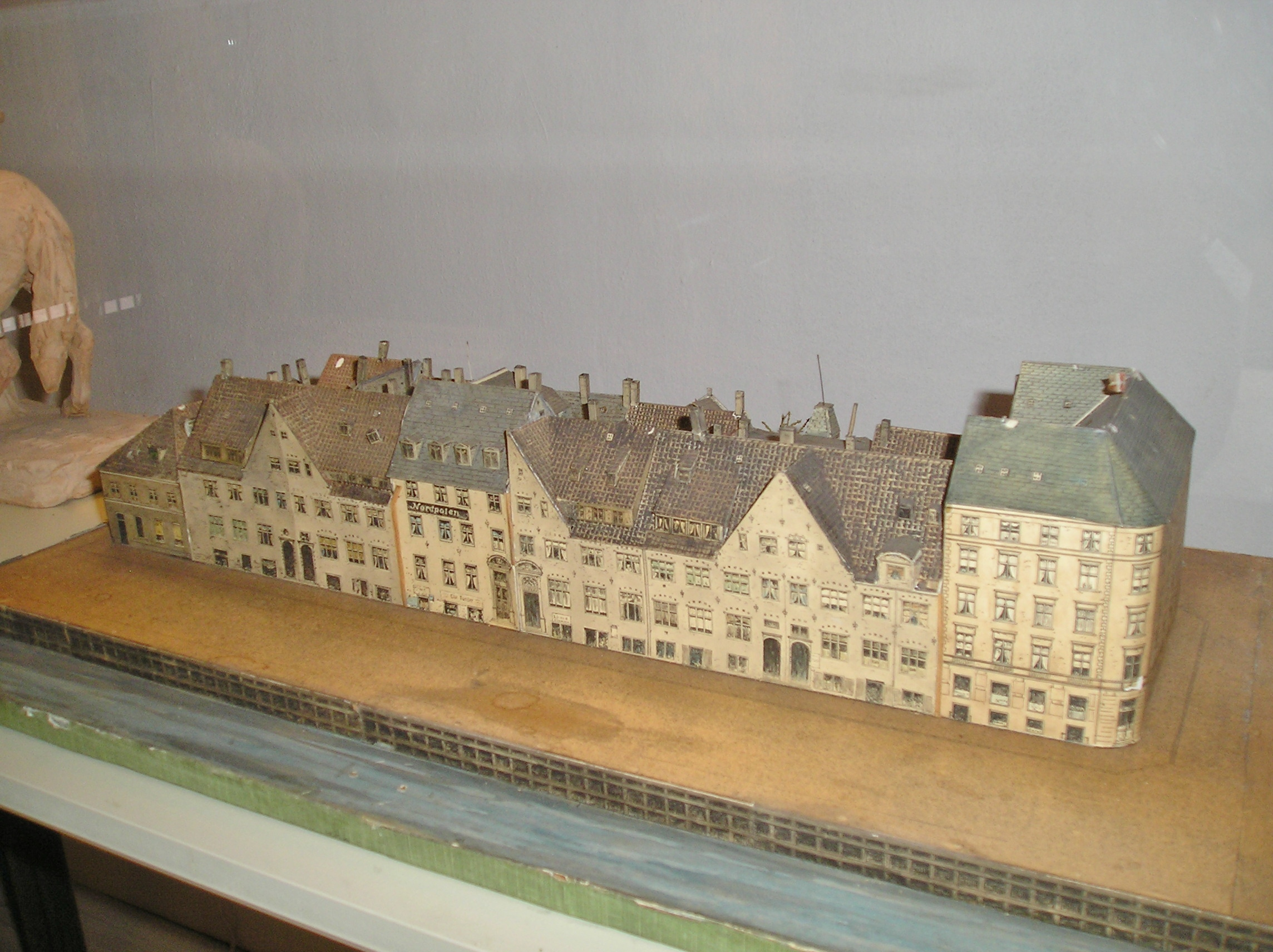 Model of the renaissance block of houses De seks Søstre ("The six Sisters") on Slotsholmen in the Museum of Copenhagen. The houses were build in the 1650s and demolished in 1901.